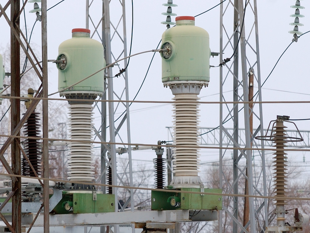 SF6 current transformer TGFM-110, railway traction substation Pokhvistnevo, Samara region, Russia